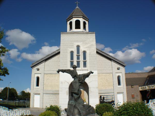 St. Mary Armenian Apostolic Church — at 45 Hallcrown Place, Toronto, ON, M2J 4Y4